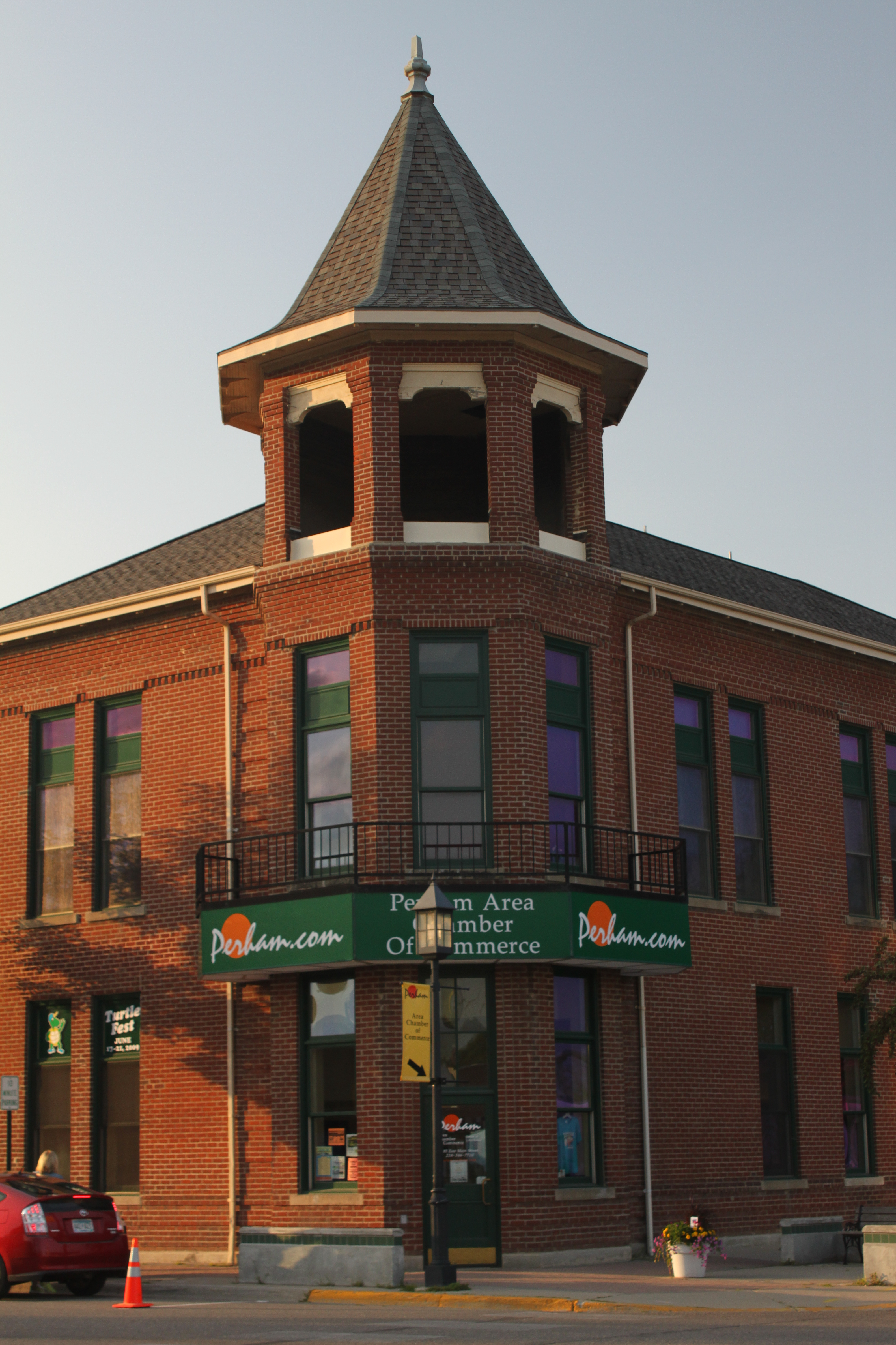 Perham, Minnesota Village Hall and [old] Fire Station.